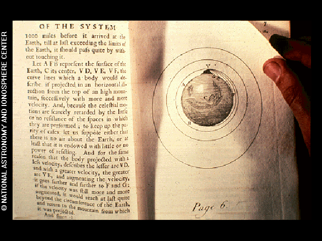 This image is a photography of page 6 from Newton's Philosophiæ Naturalis Principia Mathematica Volume 3, De mundi systemate (On the system of the world). It is part of the image collection on the Voyager Golden Record that is being carried into deep space aboard the Voyager 1 and 2 spacecrafts. The low quality and resolution is due to the limitations of the format used on the record but it is what will be seen by an extraterrestrial intelligent life form if the probes ever gets discovered.